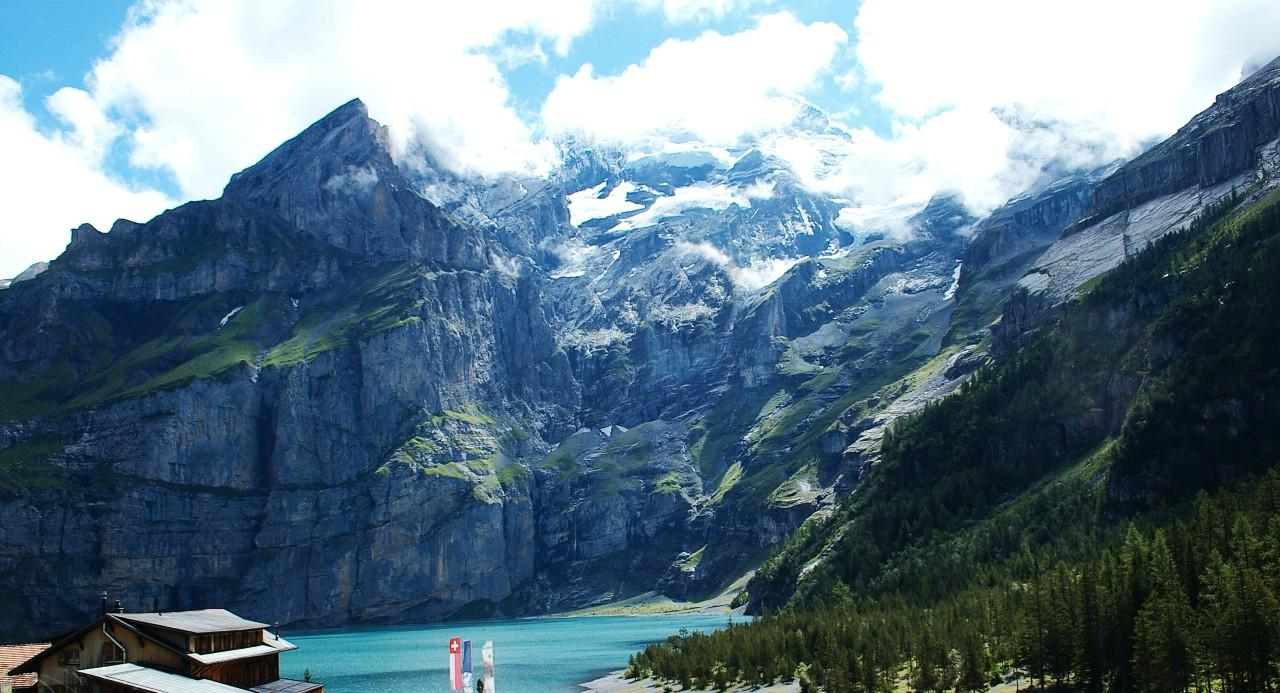 Lake Oeschinen, Kandersteg